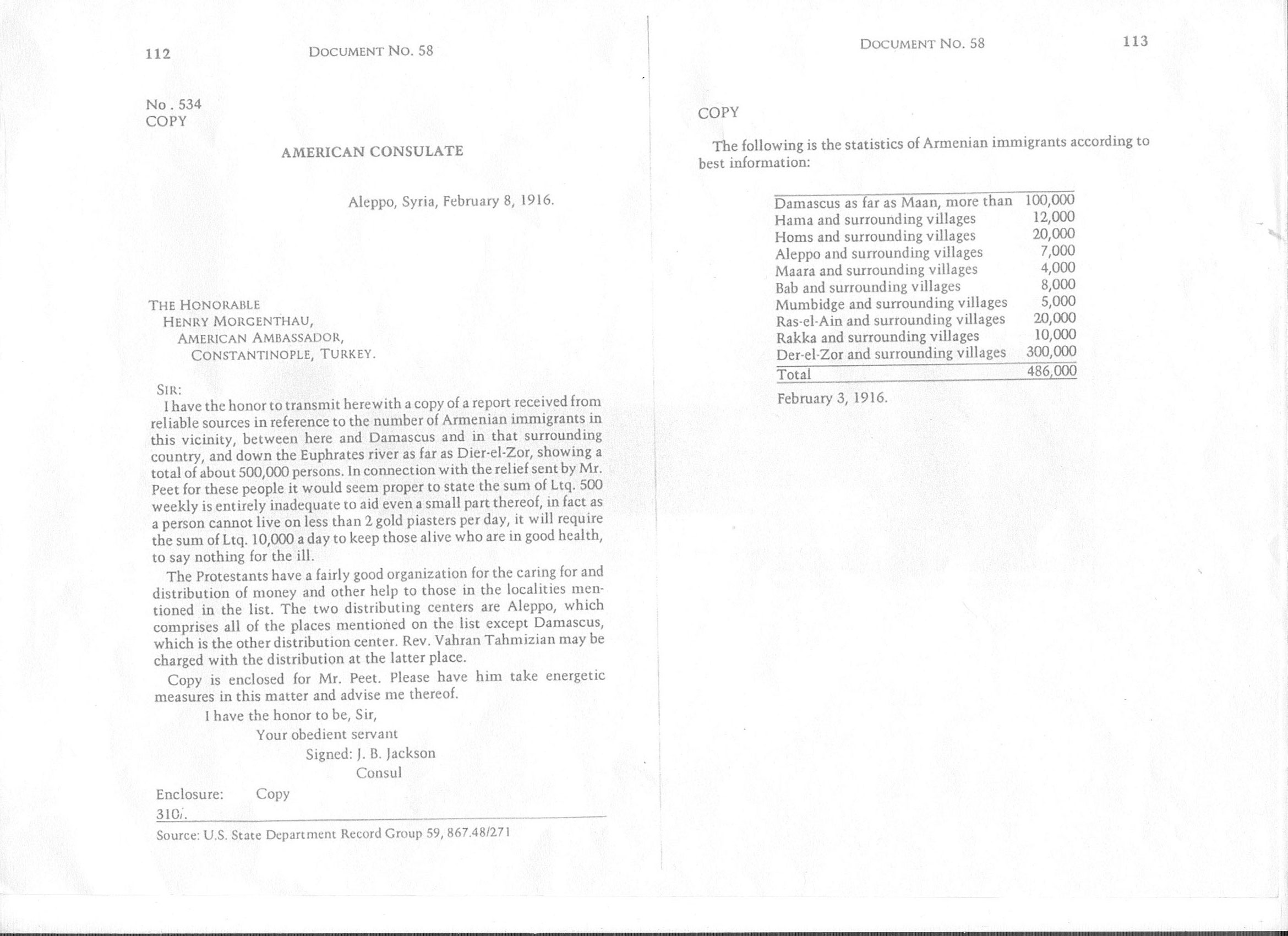 The document summarize the Armenian casualties of deportations. Published in 1916.